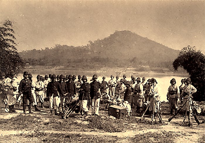 French soldiers at a halt on the Clear River during the march to Hung Hoa, April 1884